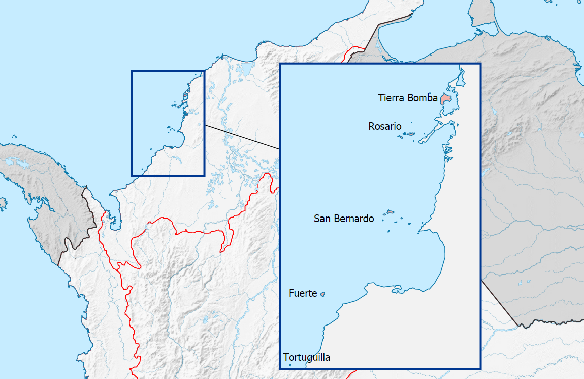 Map of Colombia (región Insular, close-up)